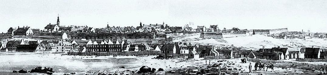 Quebec City after the Battle of Quebec (1775)